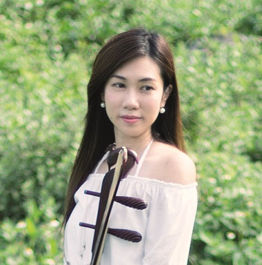 PikSum Chan - Afternoon of the South